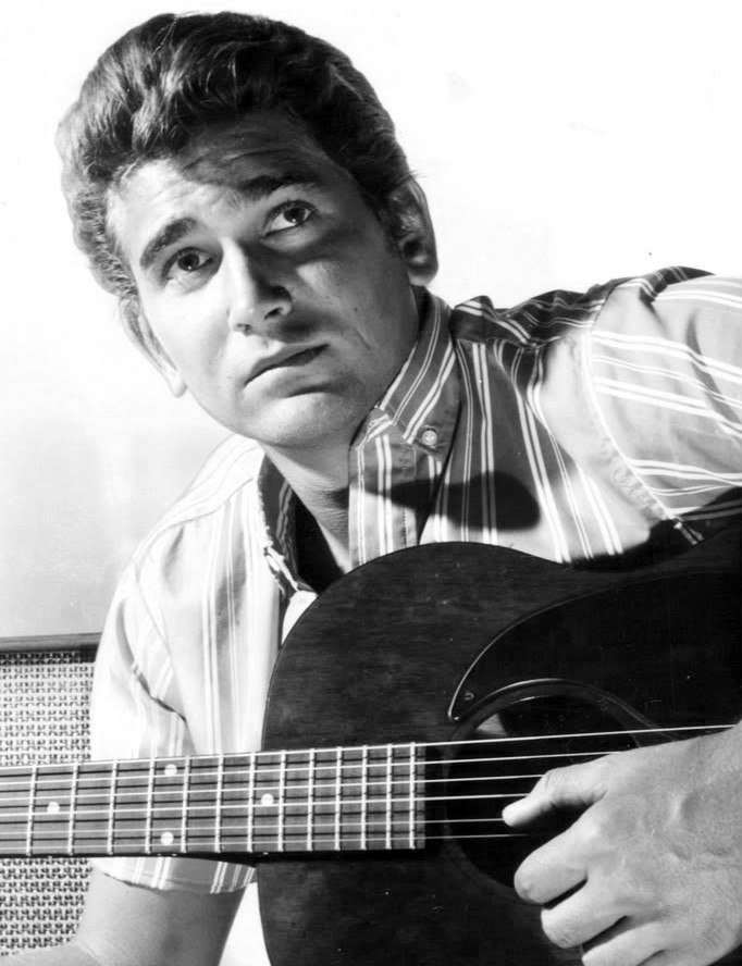 Publicity photo of Michael Landon as a guest star on the television program Hullabaloo.